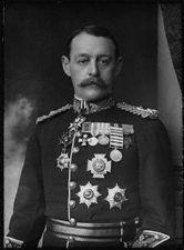 Archibald Hunter by Alexander Bassano half-plate glass negative, 1899 Purchased, 1996-01 Source: [1]